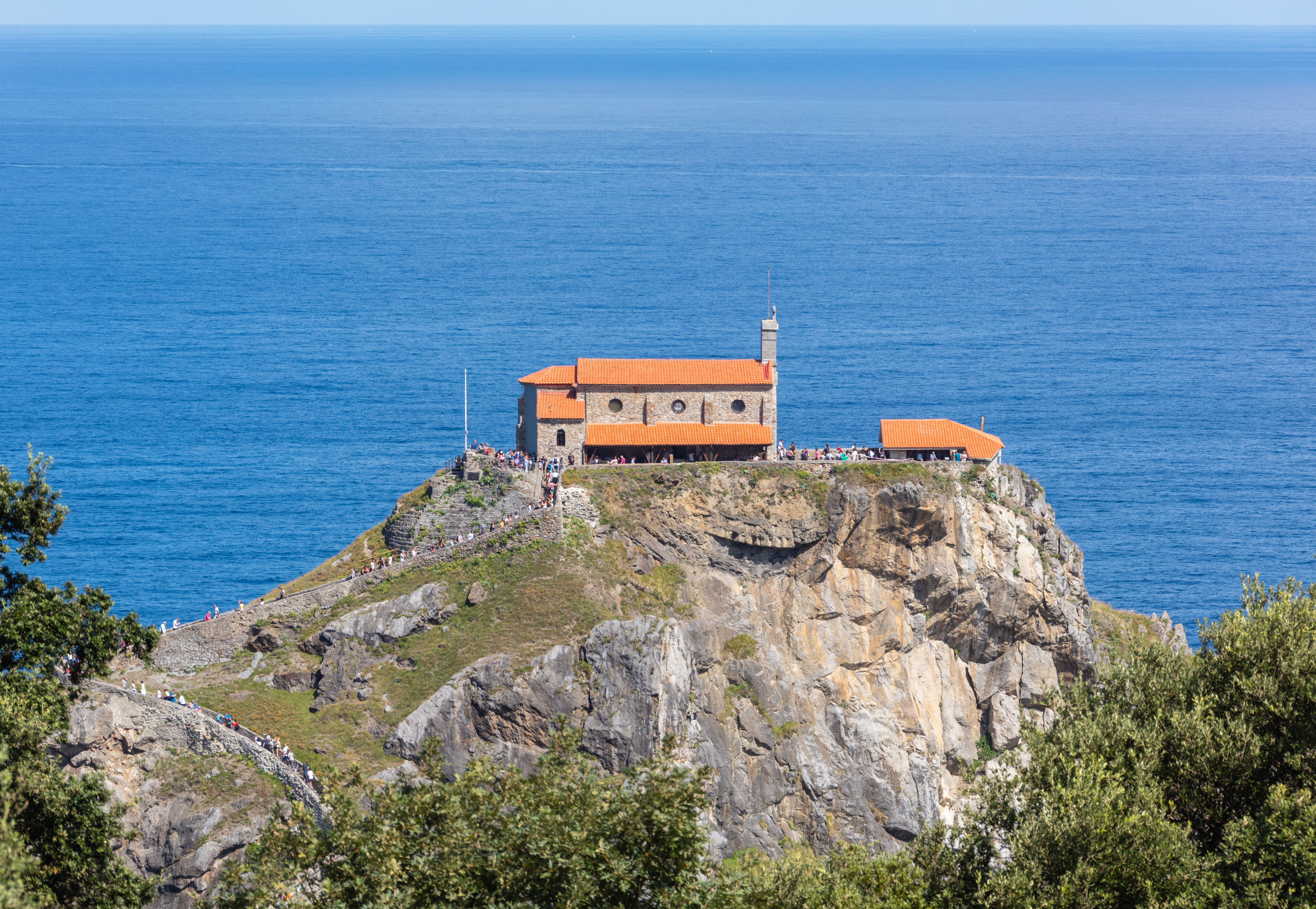 Gaztelugatxe, Bermeo, Basque Country, Spain